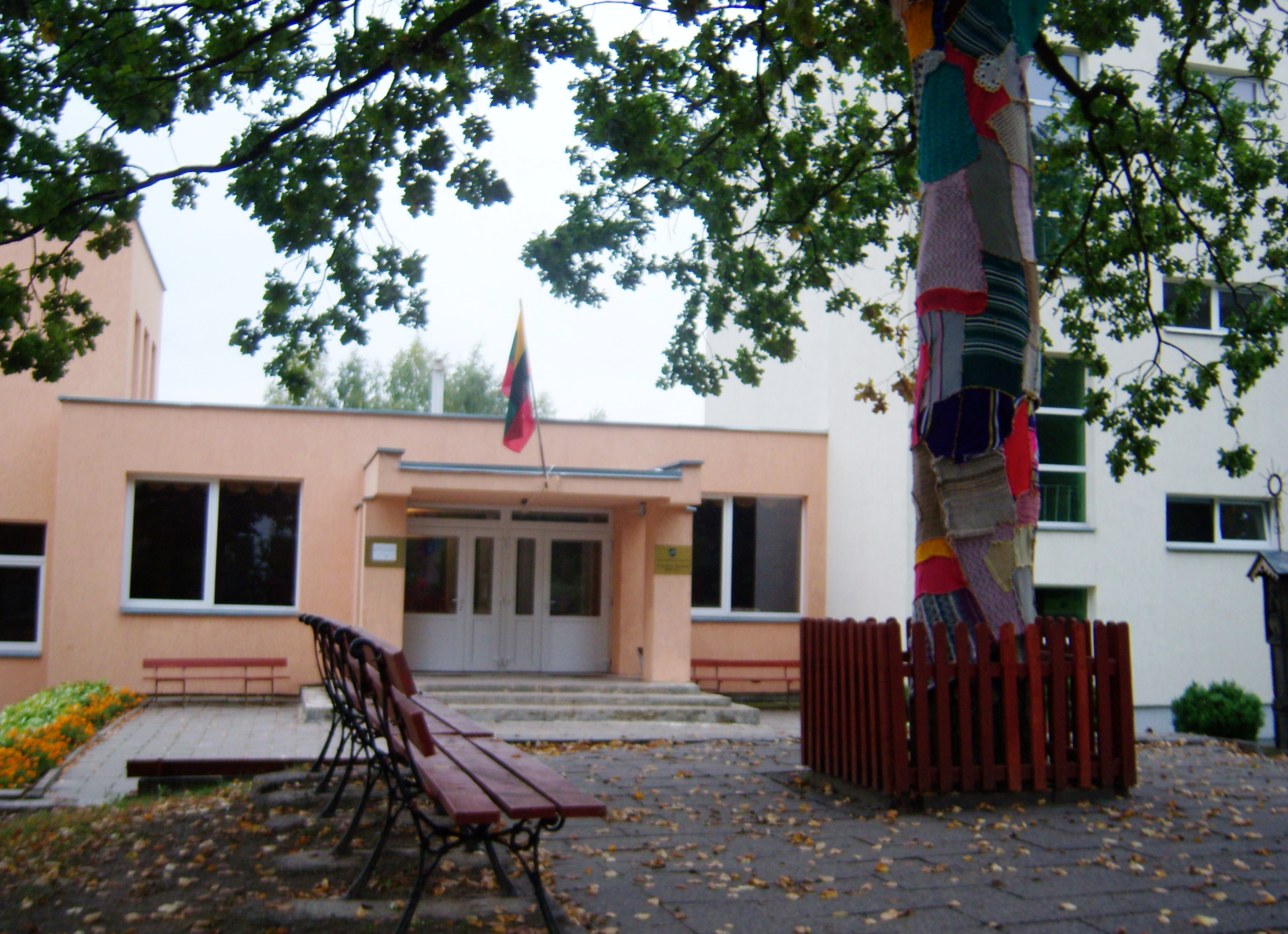 Secondary school in Plutiškės, Kazlų Rūda municipality, Lithuania